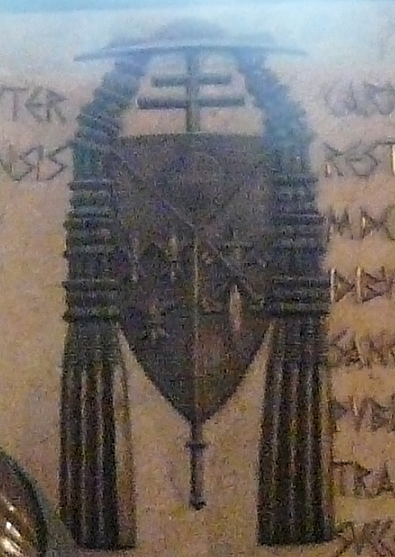 Coat of arms of Edmund cardinal Dalbor, death in 1926, Primate of Poland and Cardinal of San Giovanni a Porta Latina, in his burial monument inside Gniezno Cathedral.